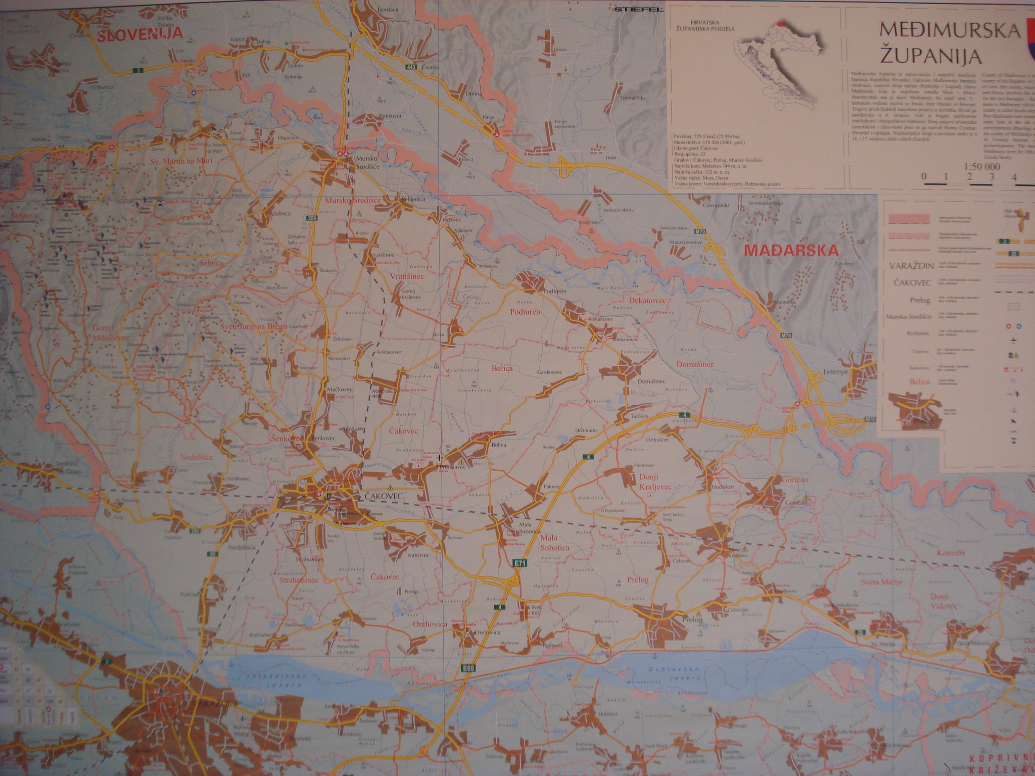 Map of the Medjimurie County, Croatia